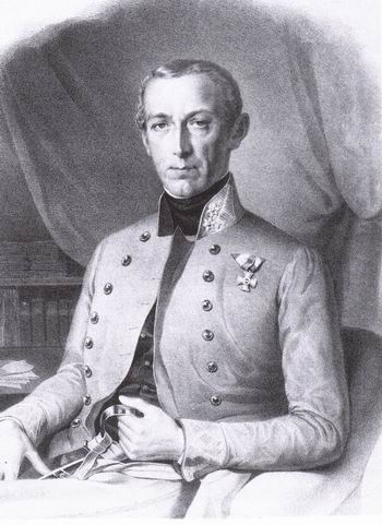 Prince Felix Ludwig Johann zu Schwarzenberg, 1800-1852, prime minister of Austria 1848-1852.